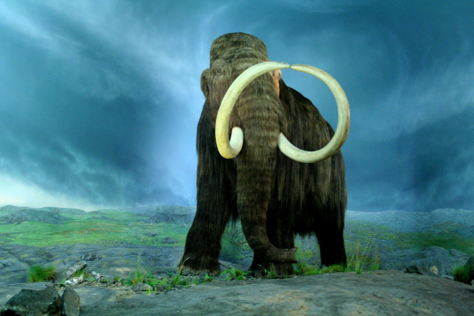 The Woolly Mammoth at the Royal BC Museum, Victoria, British Columbia.